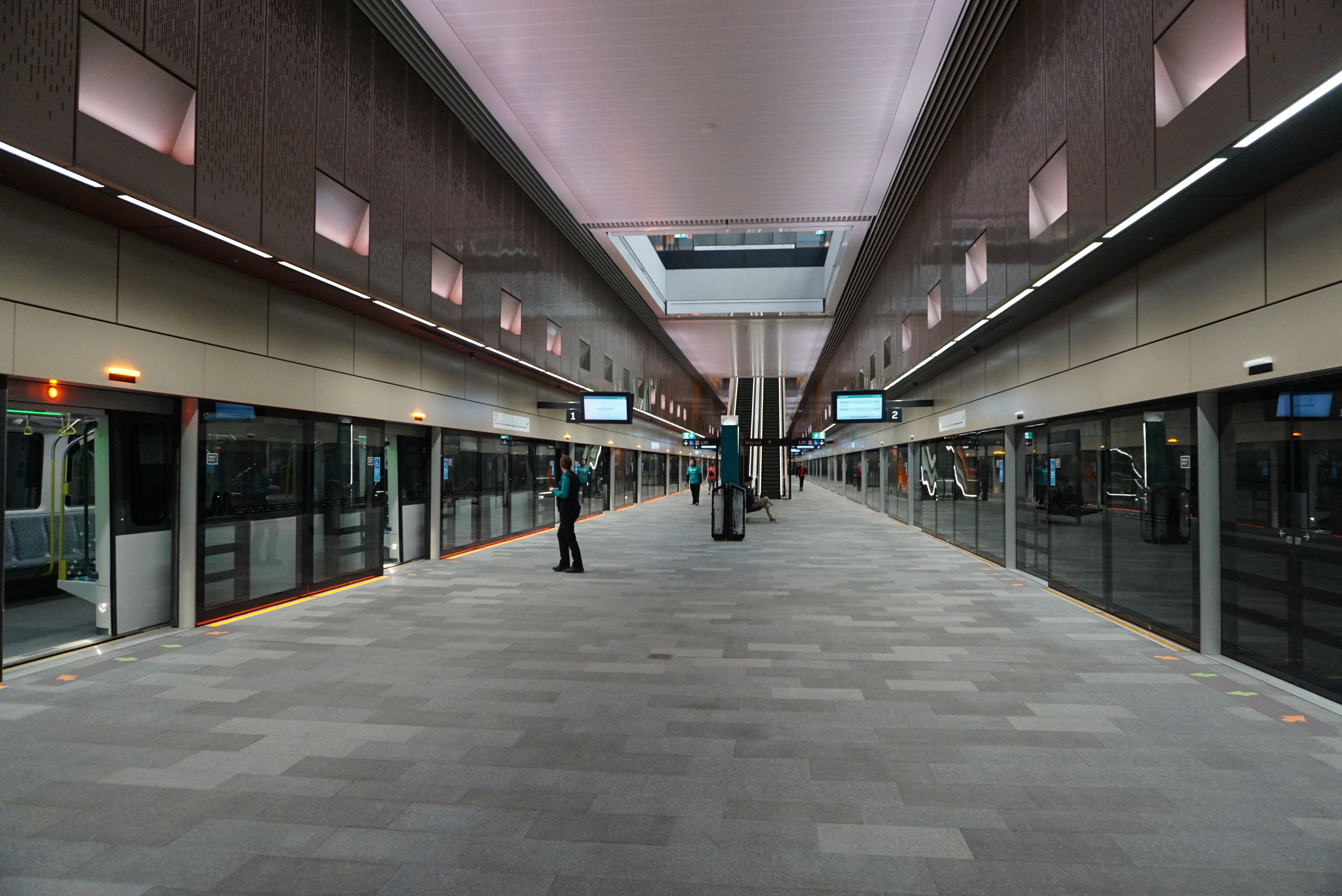 Castle Hill Station, Sydney Metro